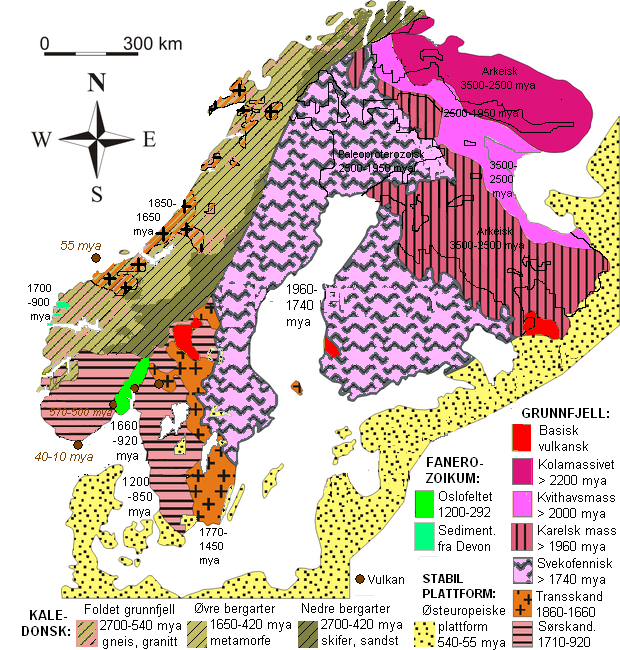 Map of the geology of Scandinavia. Mofidied colours. In norwegian.